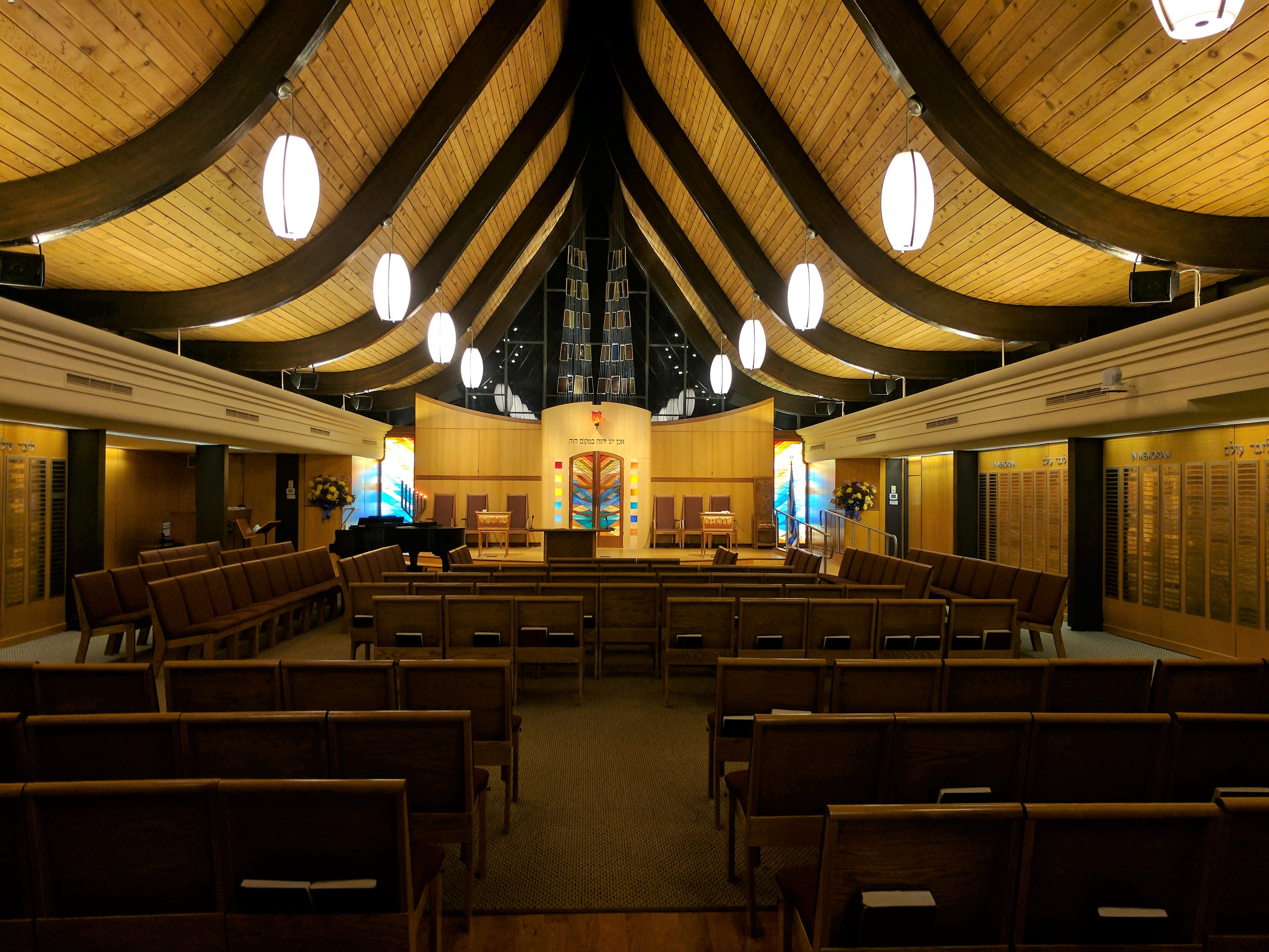 Facing towards the bema in the temple sanctuary. Taken from the center of the room.